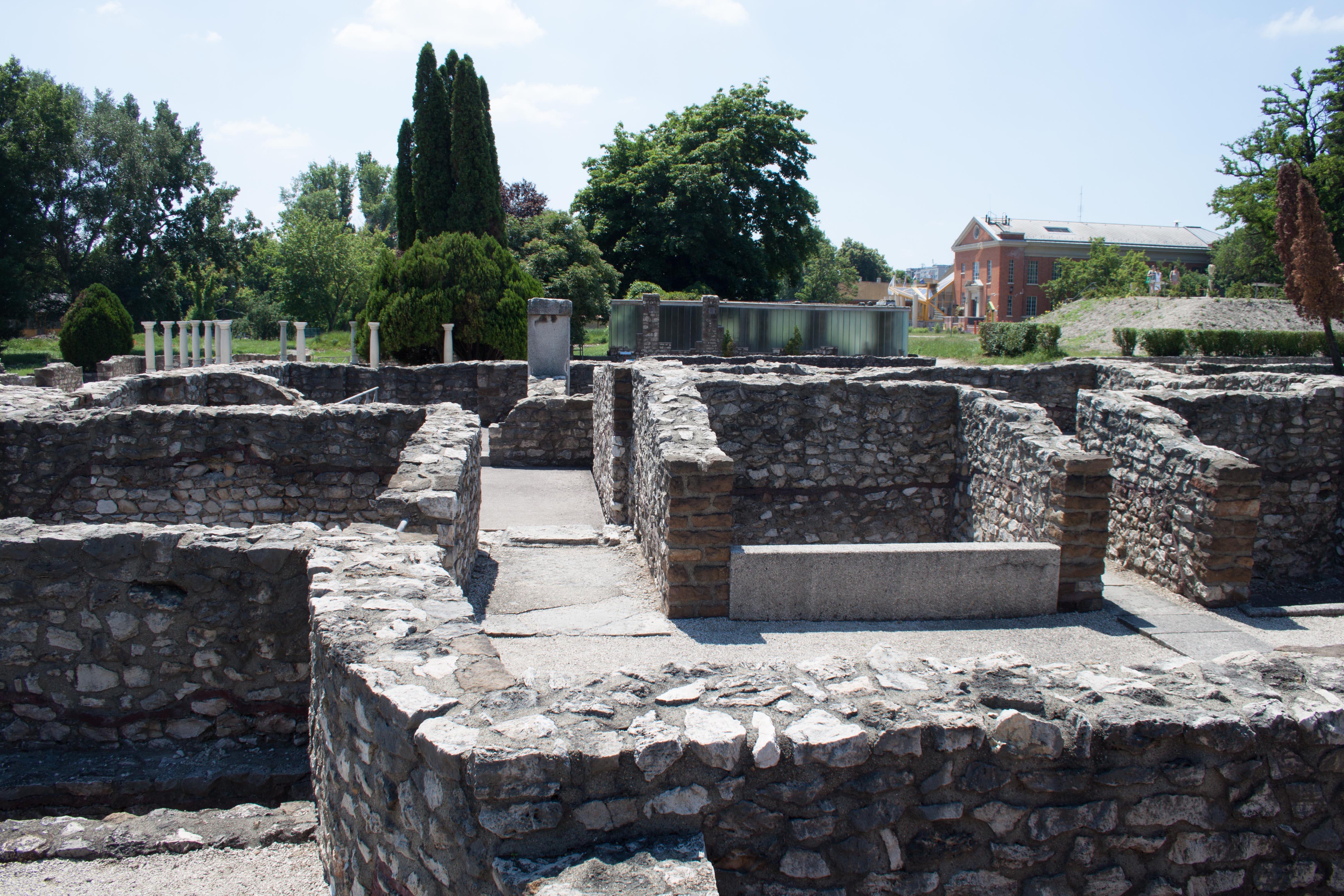 Ruins of Aquincum